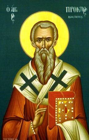 Proclus of Constantinople, orthodox icon